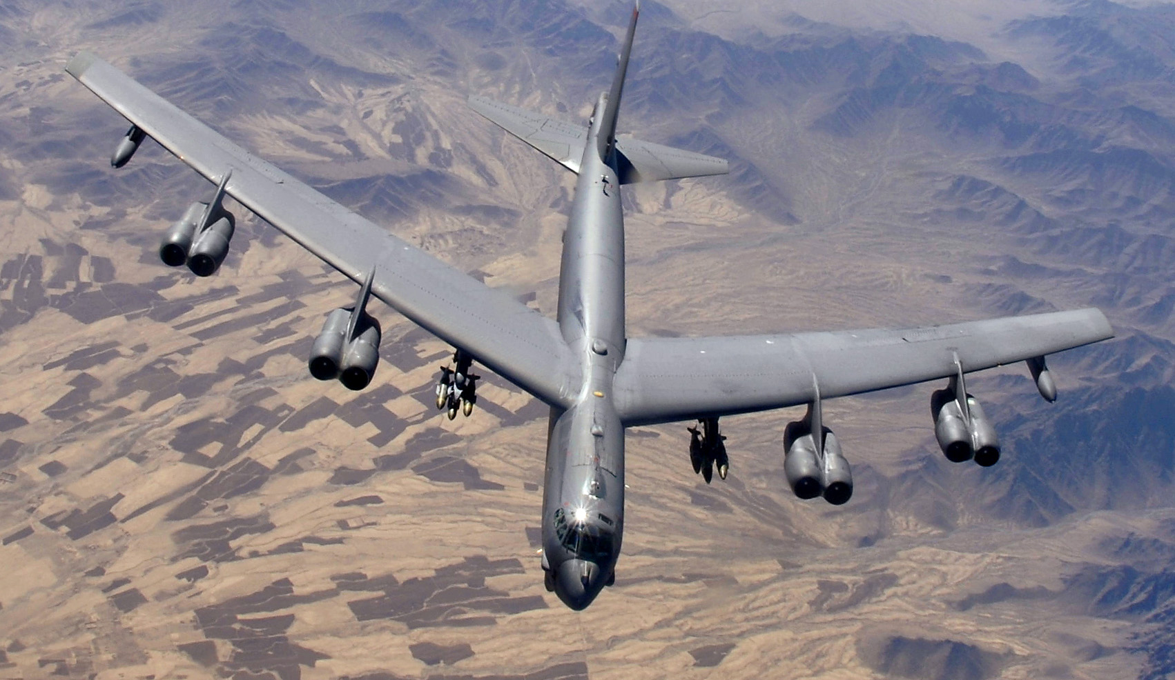 Close air support SOUTHWEST ASIA (AFPN) -- A B-52 Stratofortress, flown by Capt. Will Byers and Maj. Tom Aranda, prepares for refueling over Afghanistan during a close-air-support mission. The crew is deployed from the 2nd Bomb Wing, Barksdale Air Force Base, La. (U.S. Air Force photo by Master Sgt. Lance Cheung)